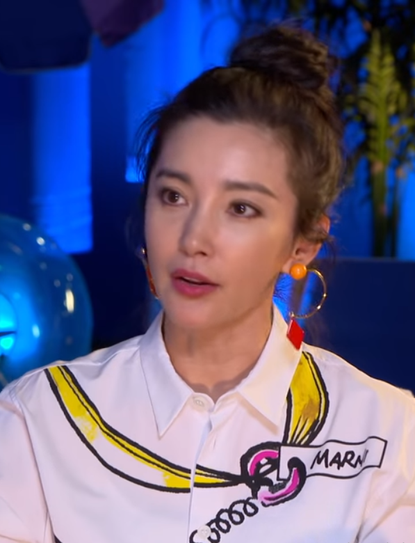 Stars of new MEGA-SHARK movie, The Meg, Jason Statham, Ruby Rose, Li Bingbing and Rainn Wilson reveal the moments that made them LOL behind the scenes, the hilarious bits you WON’T see in cinemas, Ruby Rose’s superhero plans and Jason Statham gives us the details on his upcoming Fast & Furious spinoff movie with The Rock!